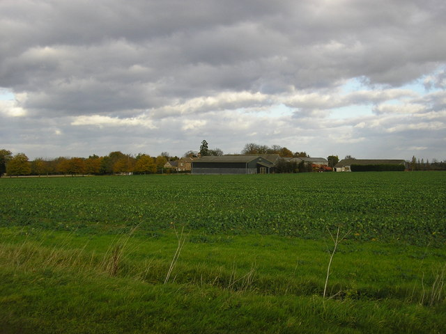 Manor Farm, Birthorpe